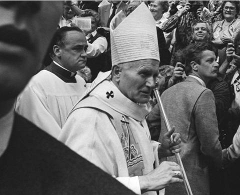 Paus Johannes-Paulus II in Irenehal van de Utrechtse Jaarbeurs omringed door beveiliging wegens de menigte, Utrecht 12 mei 1985